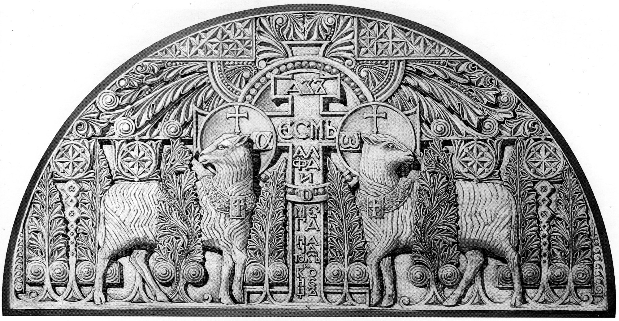 Original draft artwork for the entrance portal of the Naval Cathedral in Kronstadt by Vasily and Georgy Kosyakov. Inscription: I am alpha and omega, begining and end - Revelation 1:8